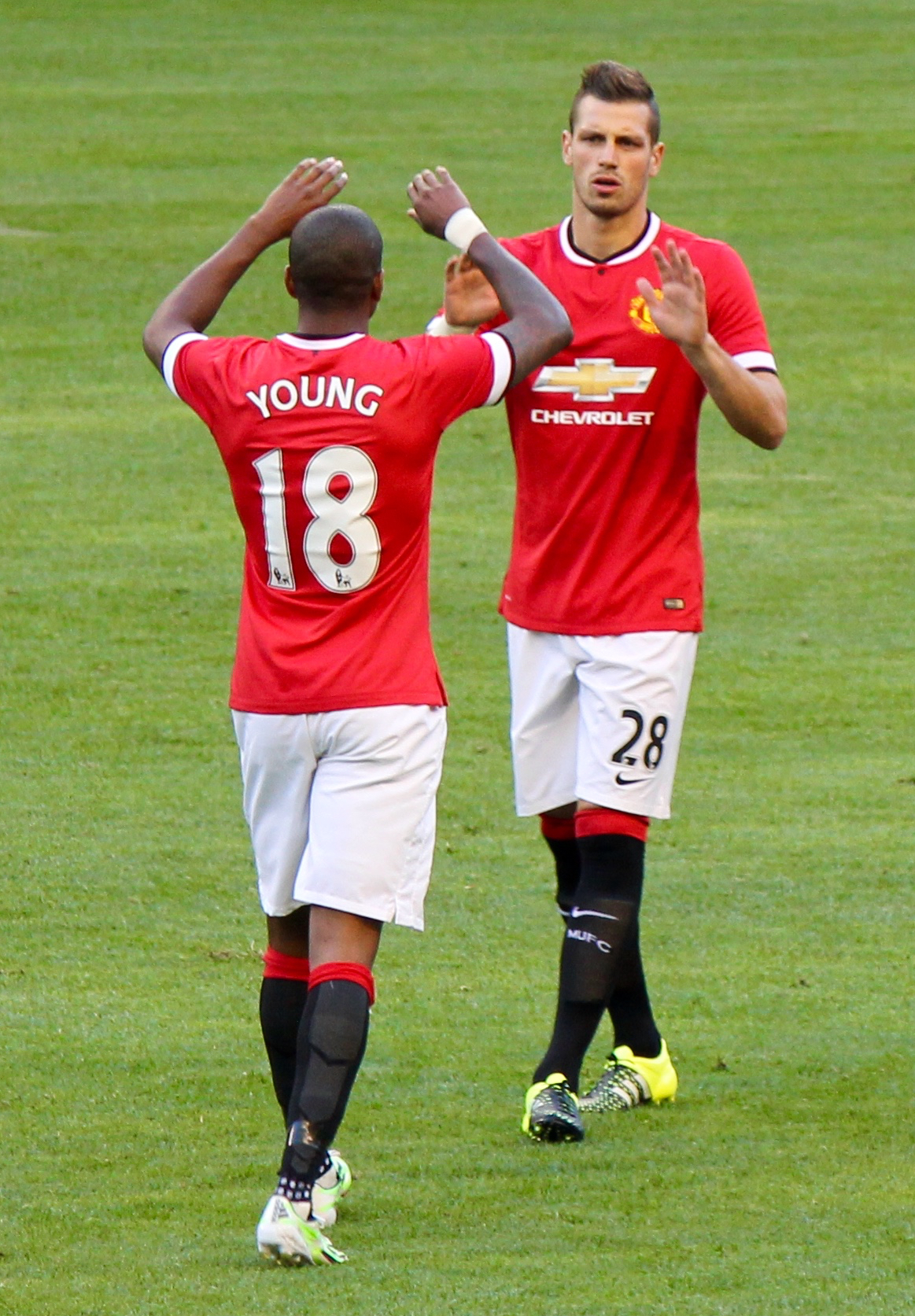 Ashley Young, Morgan Schneiderlin and Luke Shaw playing for Manchester United in pre-season friendly against Club America